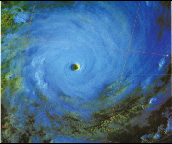 Cyclone Geralda shortly after it achieved its peak intensity and 24 hours before it made landfall on Madagascar